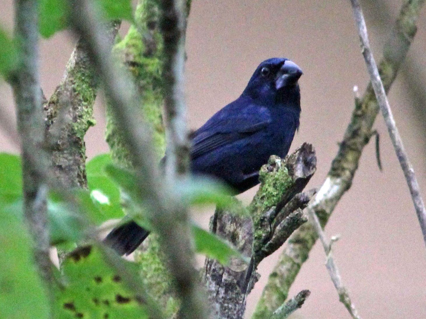 Blue-black Grosbeak (Cyanocompsa cyanoides) - at the Poas Volcano in Costa Rica.